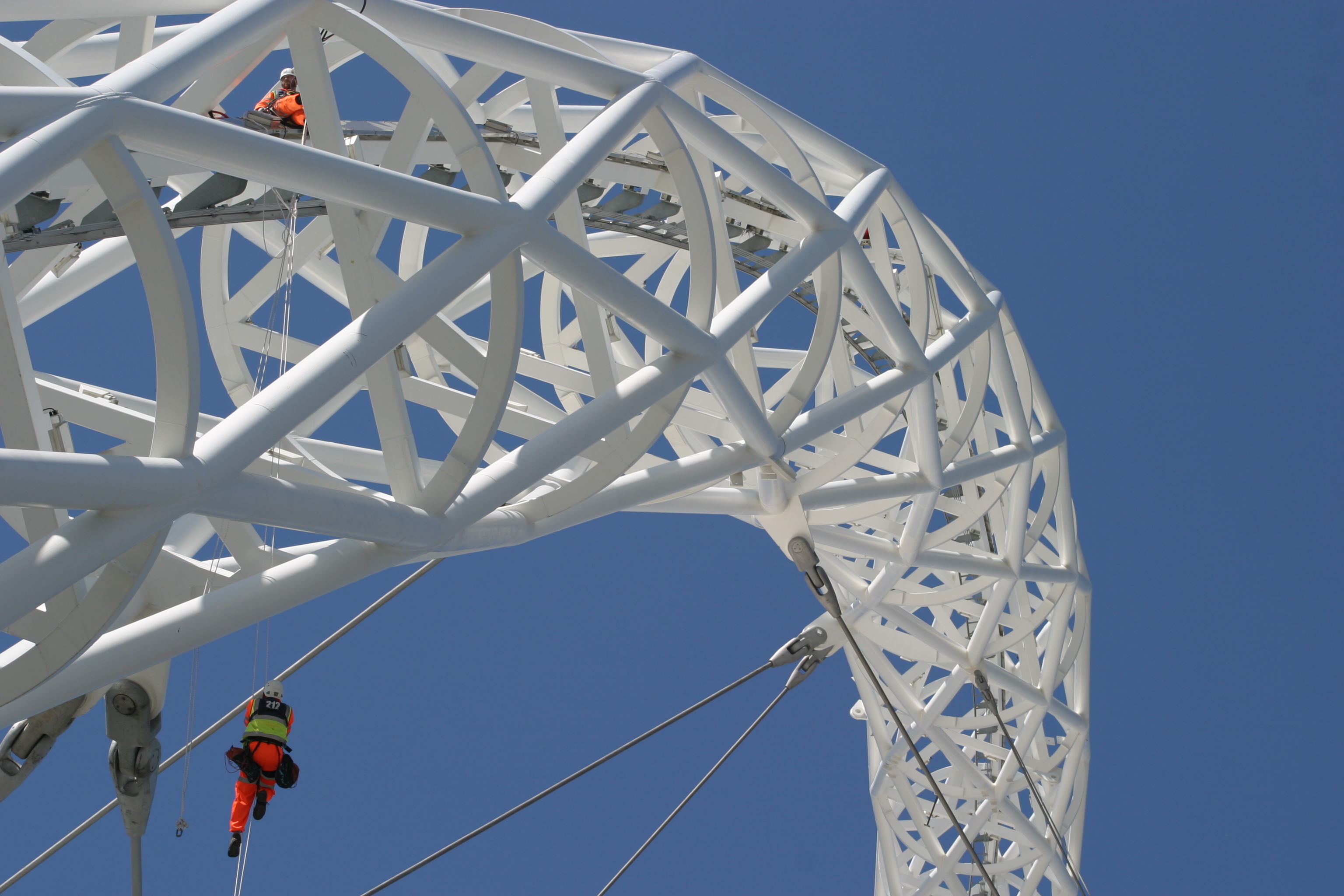 Close up view of the arch over Wembley.